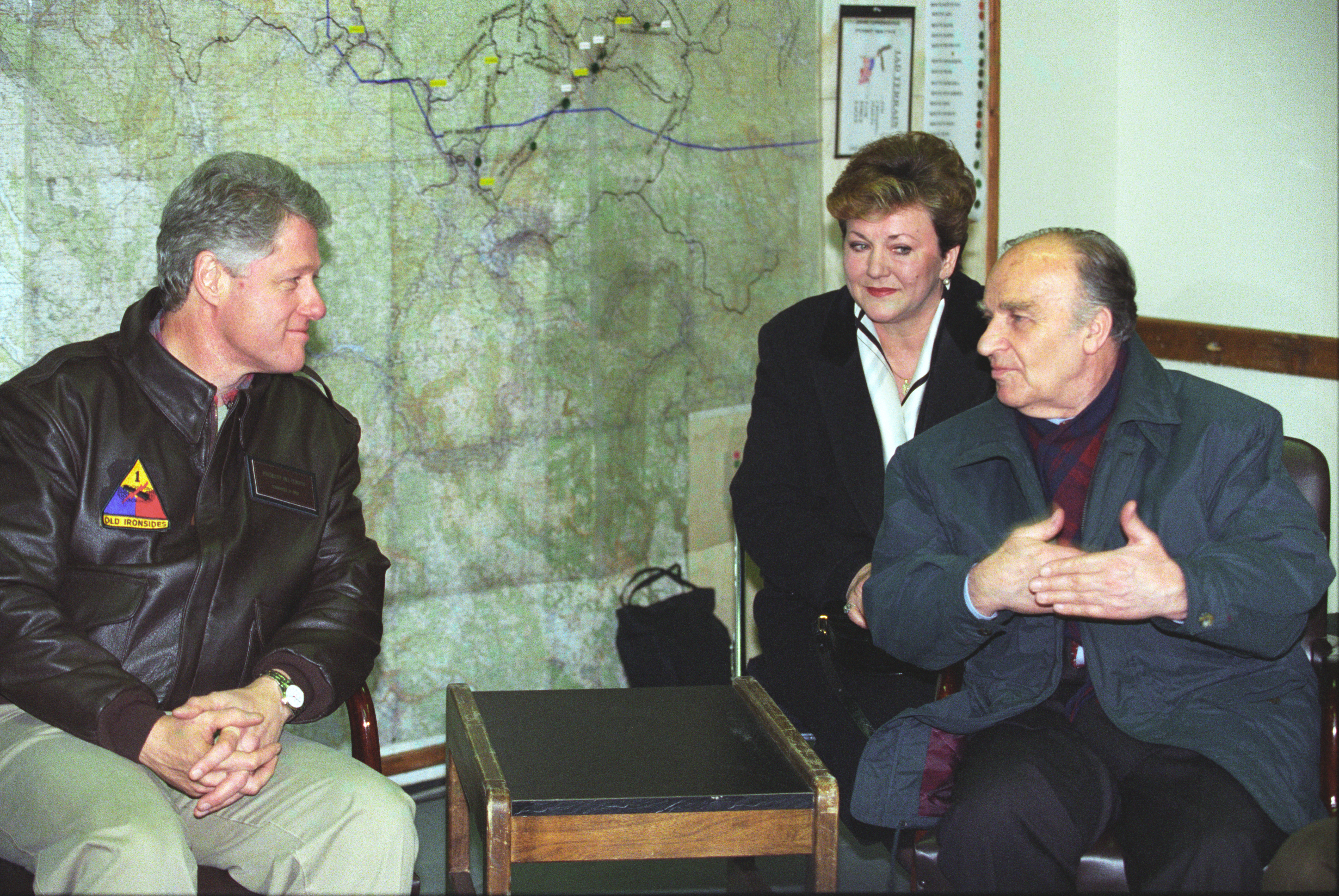 December 22, 1997 (Credit: William J. Clinton Presidential Library) Hosted by the Clinton Library and the Clinton Foundation, the document release was spearheaded by CIA’s Historical Review Program (HRP), which identifies, collects and produces historically relevant collections of declassified materials. The Bosnia collection—the youngest ever released in HRP’s 20-year existence—is available online at A video recording of the symposium is available at